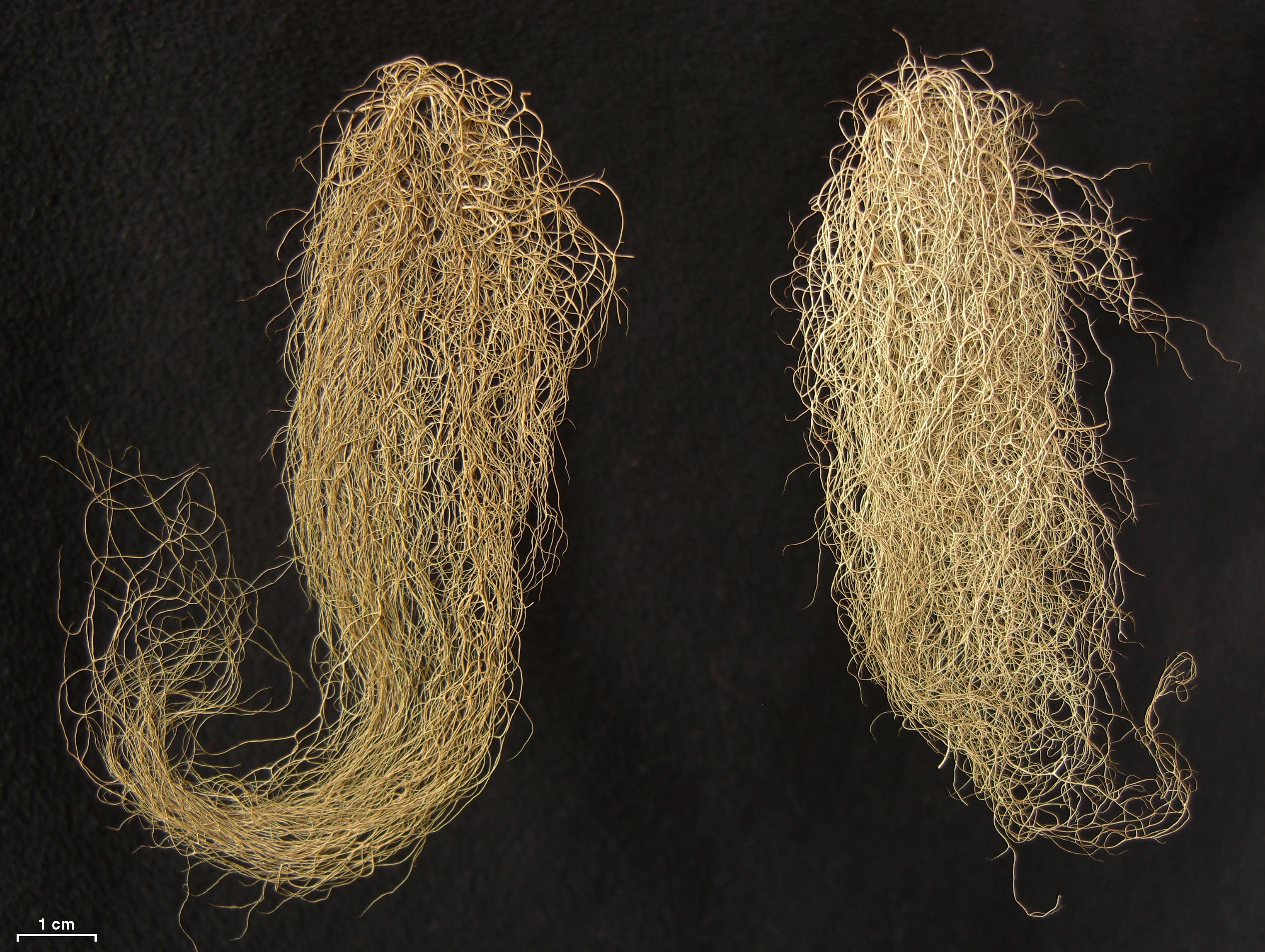 Fourth of July Pass, Idaho, 20130603